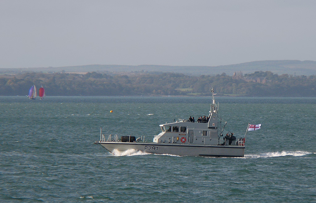 HMS Puncher photographed at Portsmouth, UK, on 25 October 2008.